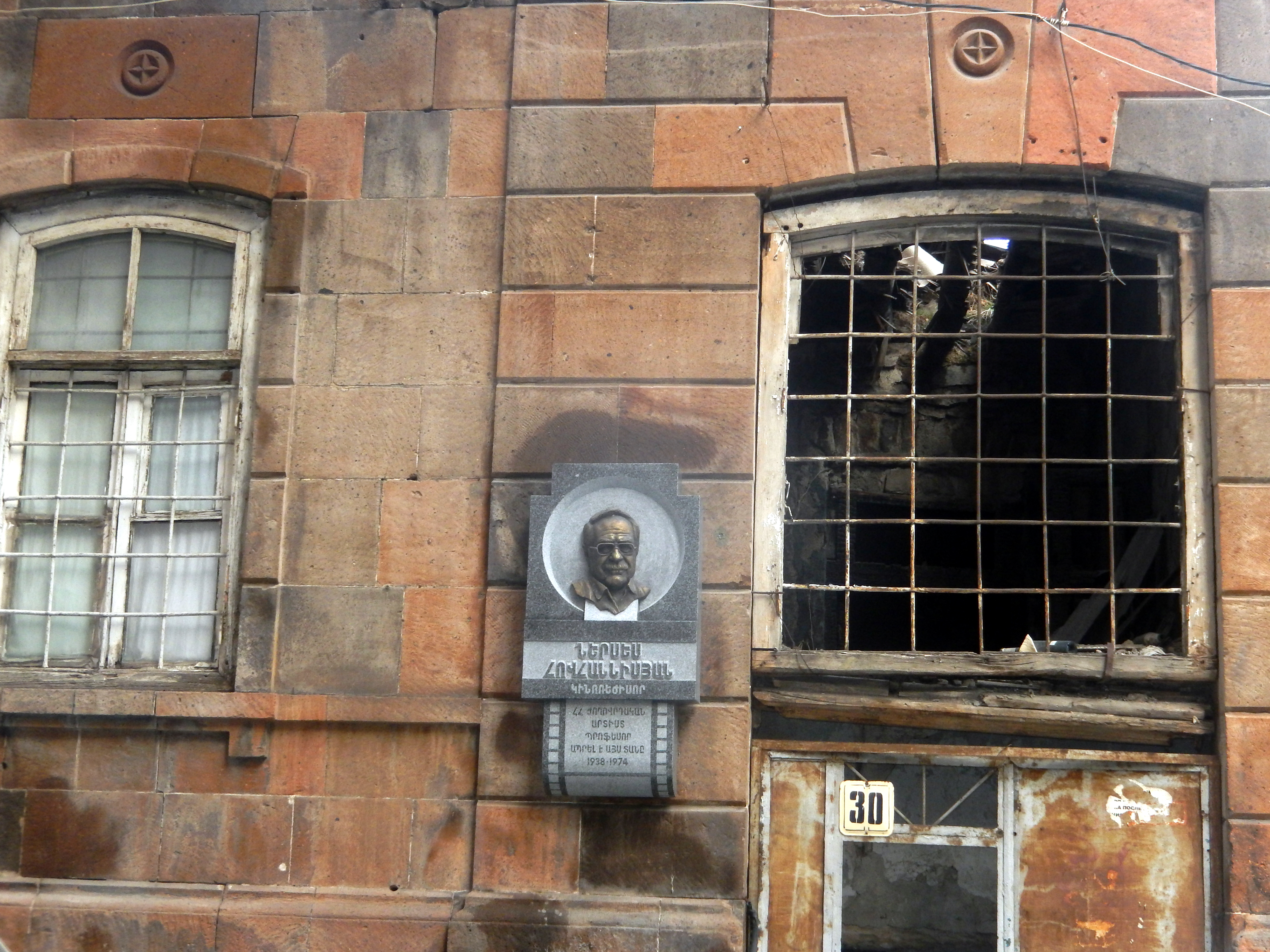 Nerses Hovhannisyan's plaque on Pavstos Buzand Street of Yerevan